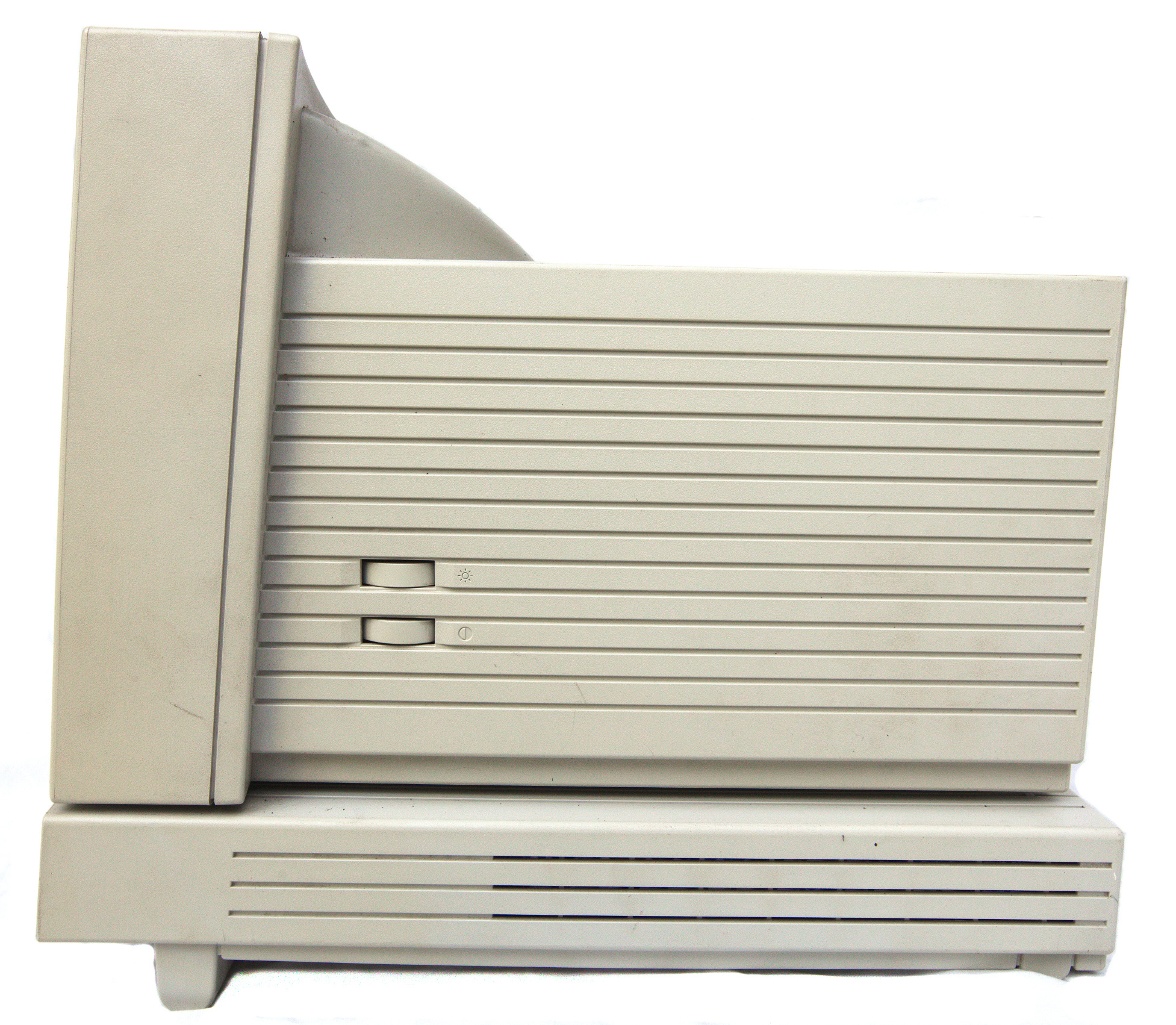 Side view of an Apple Macintosh LC II computer with Macintosh 12" RGB display.